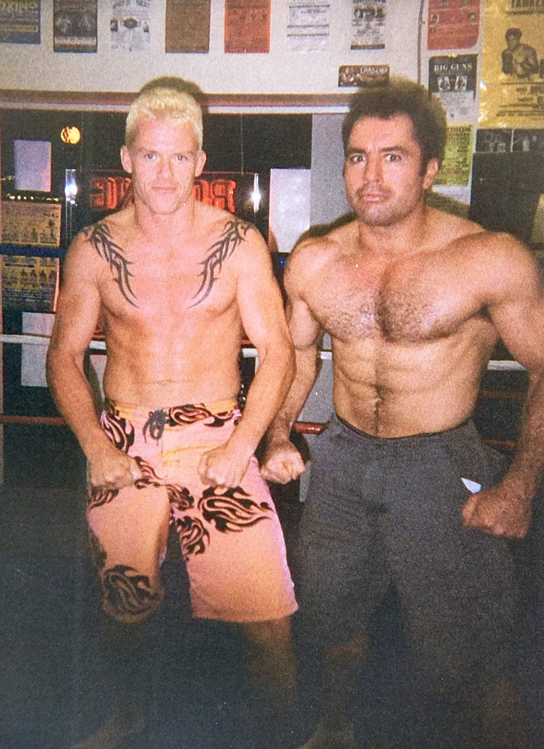 Gerald Strebendt with Joe Rogan, circa 2002